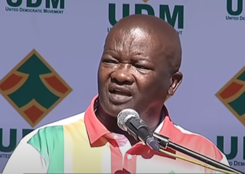 UDM leader Bantu Holomisa speaks in Khutsong in May 2019